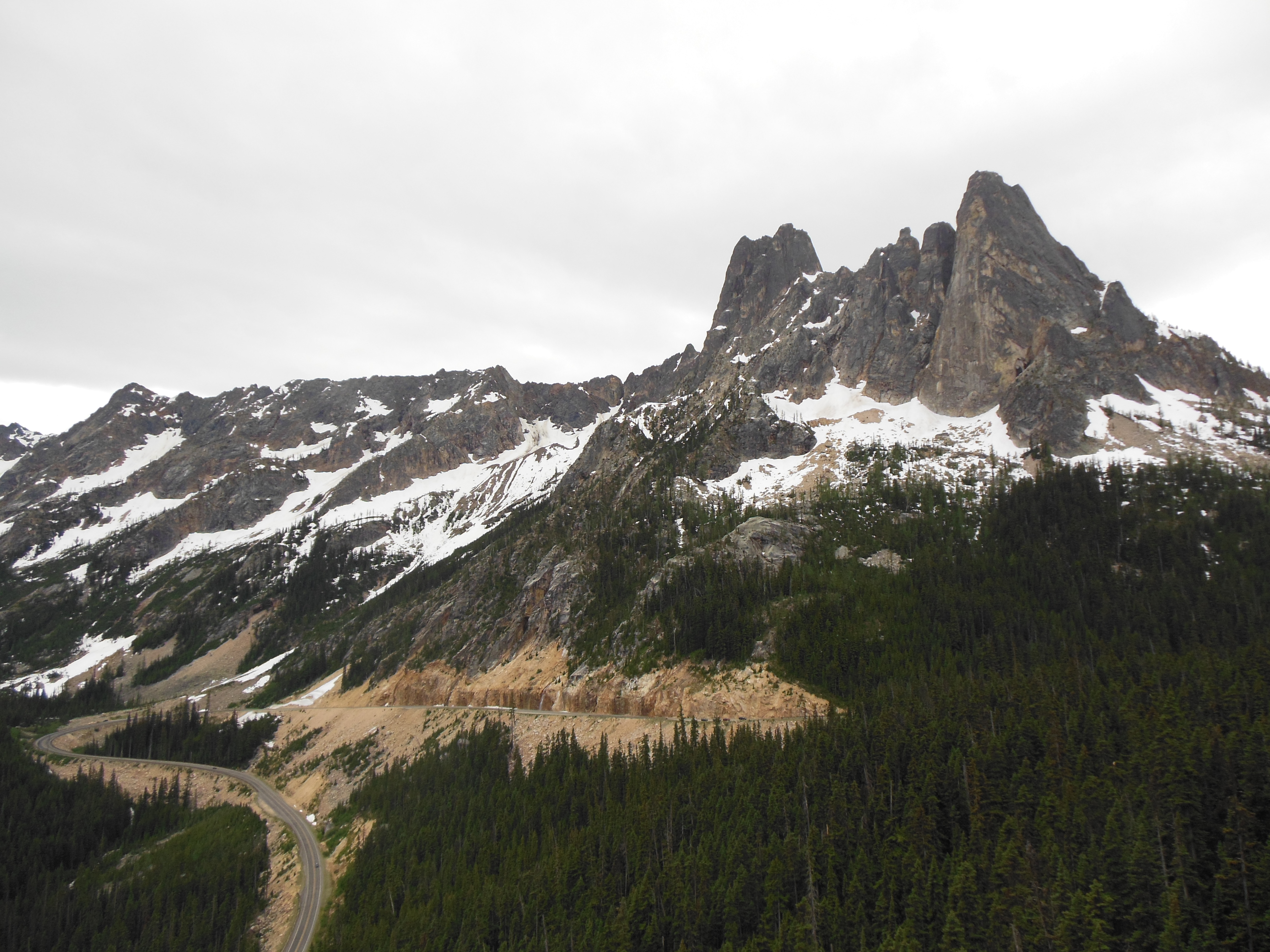 Washington Pass along State Route 20 and Liberty Bell Mountain in the North Cascades, Washington